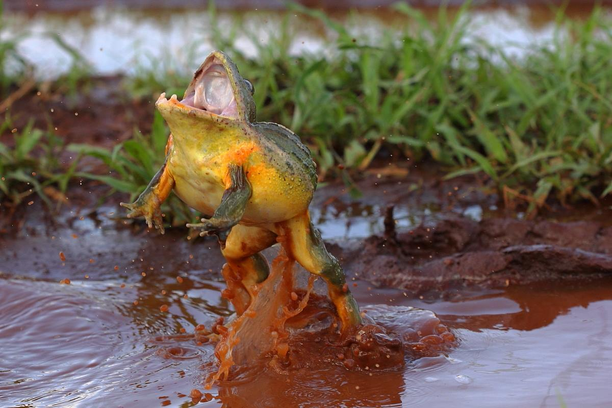 Pyxicephalus adspersus - near Nylstroom, Transvaal, South Africa